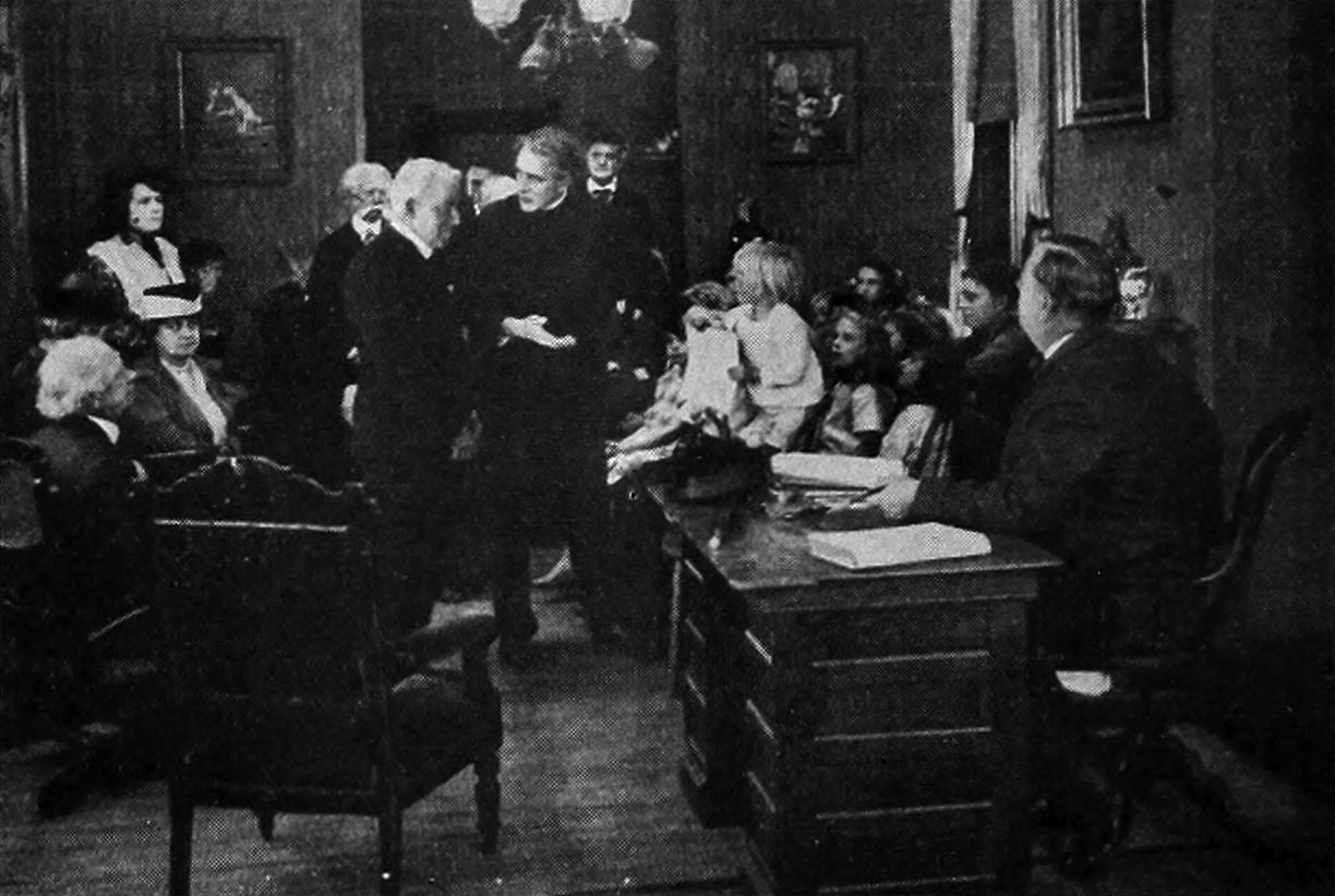 A scene from Cheerful Givers, depicting Spottiswoode Aitken